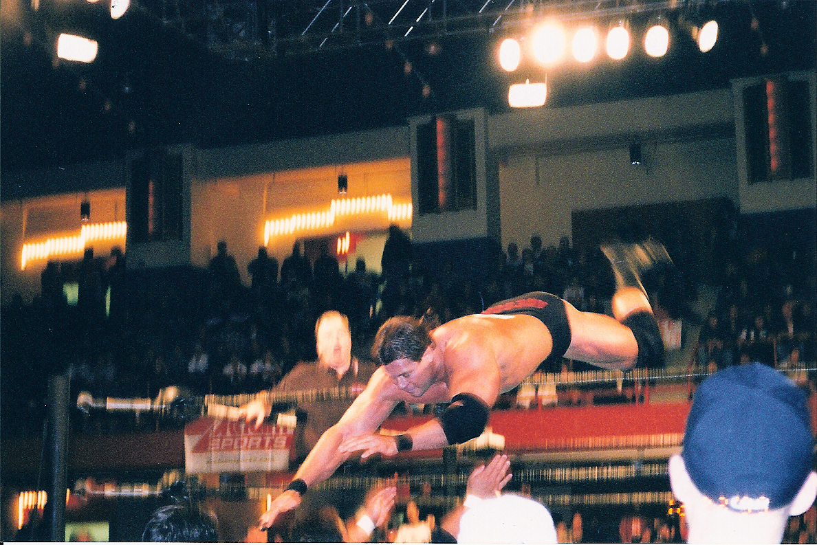 ECW @ Westchester County Center in White Plains, NY TNN TV Taping - 12.23.99